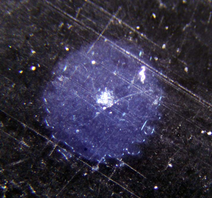 Unpolished microprobe preparate with a 0,20 x 0,15 x 0,10 mm grain of bronze-pinkish Tantalcarbide from the type and only known locality worldwide (Avrorinskii Placer, Aktai River, Baranchinsky Massif, Nizhnii Tagil, Sverdlovsk Oblast, Russian Federation), completely analyzed. The exact formula of this specimen is (Ta0,80Nb0,20)C. Part of holotype, portion of original material sold by Krantz to FMM in 1912 and collected at the beginning of XX century. This material was investigated and led to an article describing the new isomorphous series TaC-NbC from platinum placers of the Urals.